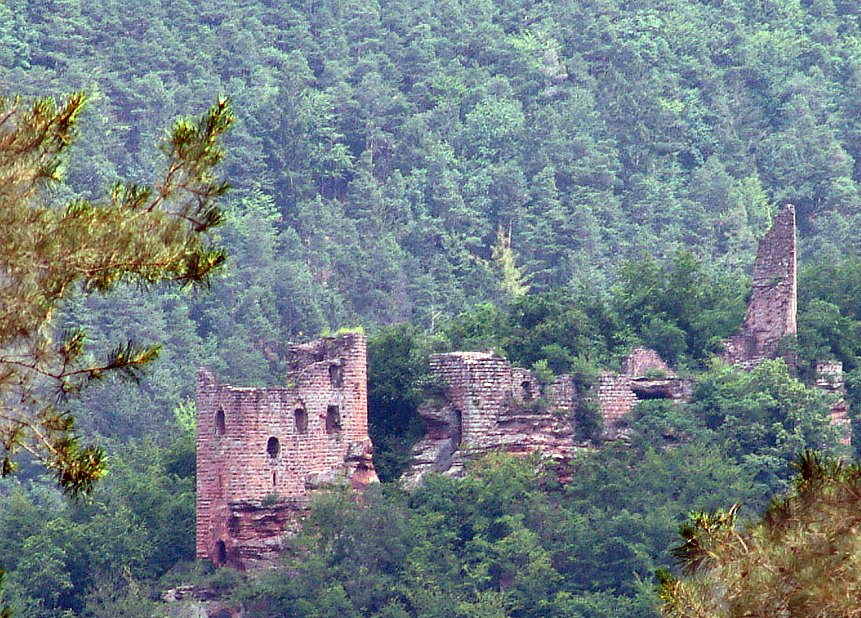 Burg Wasigenstein, seen from south west.